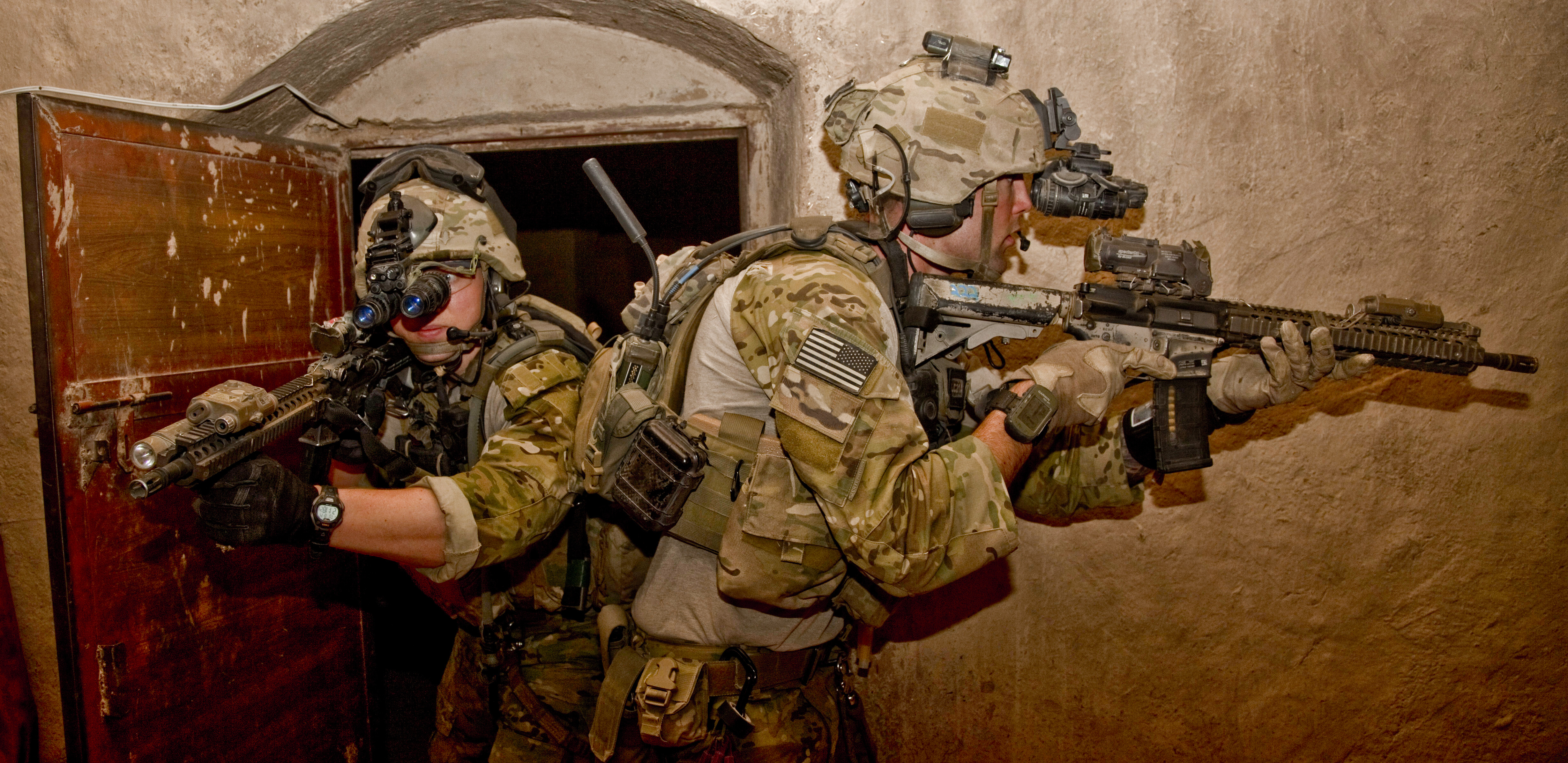 An Afghan and coalition security force conduct room searches in which they detained eight suspected insurgents during an operation to arrest a Taliban leader in Nahr-e Saraj district, Helmand province, Afghanistan, Aug. 14, 2012. (Photo by U.S. Army Spc Justin Young) 55th Combat Camera Date Taken:08.14.2012 Location:NAHR-E SARAJ DISTRICT, AF